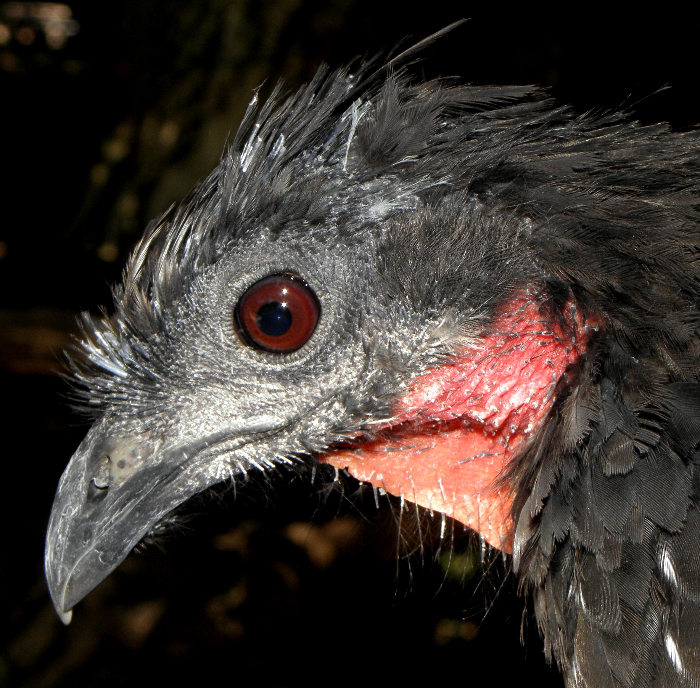 Dusky-legged Guan (Penelope obscura).